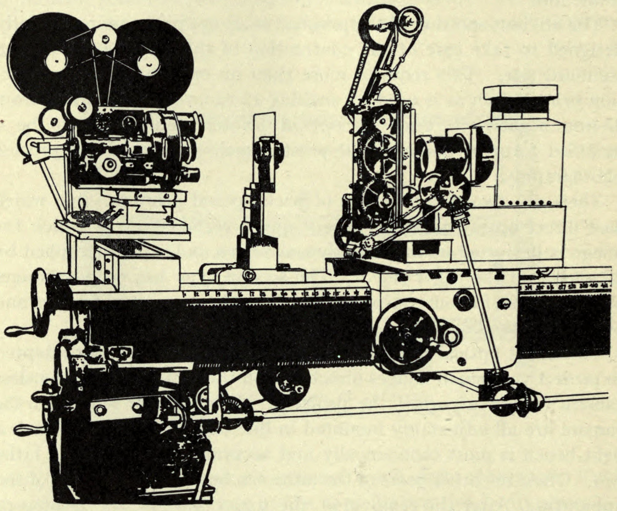 Optical printer for old and shrunken films, designed by Carl Louis Gregory, 1940. This printer was modified to handle paper prints in 1943